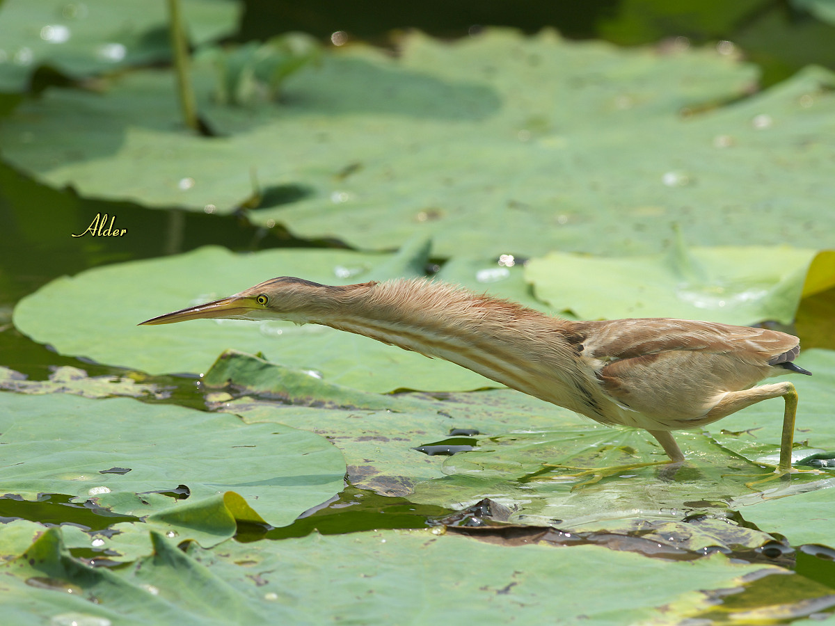 Very long neck...taken at Taipei Botanical Garden.